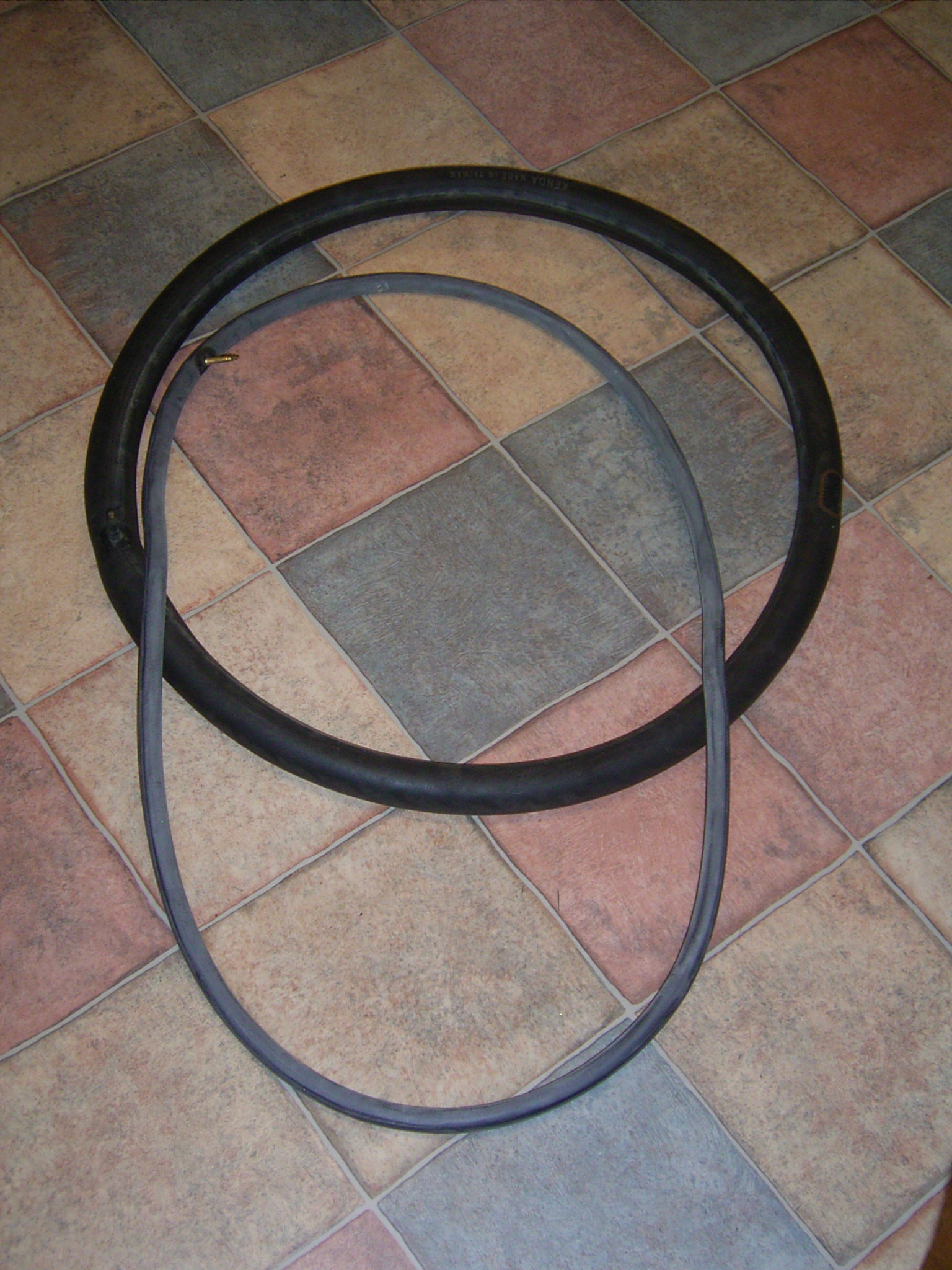 Tubes for bicycle tires. Foto taken by myself. In foreground racing bike-tube in background MTB-tube.